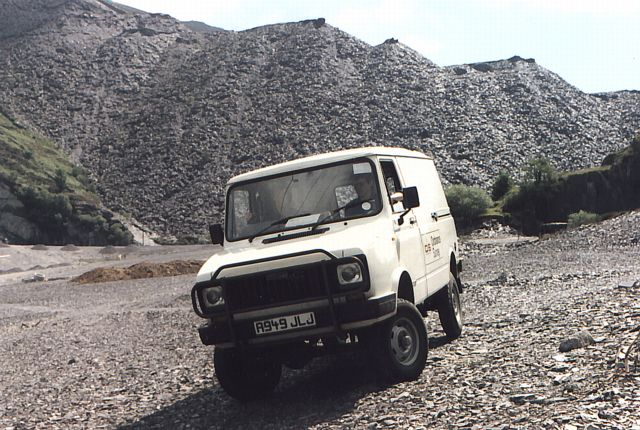 Dinorwig Quarry Slate Tips. A view of the vast Dinorwig Quarry Slate Tips, the angular bits at the top of the tips are the ends of the Tramways, used to transport and tip the waste. The area in the foreground has been reclaimed.